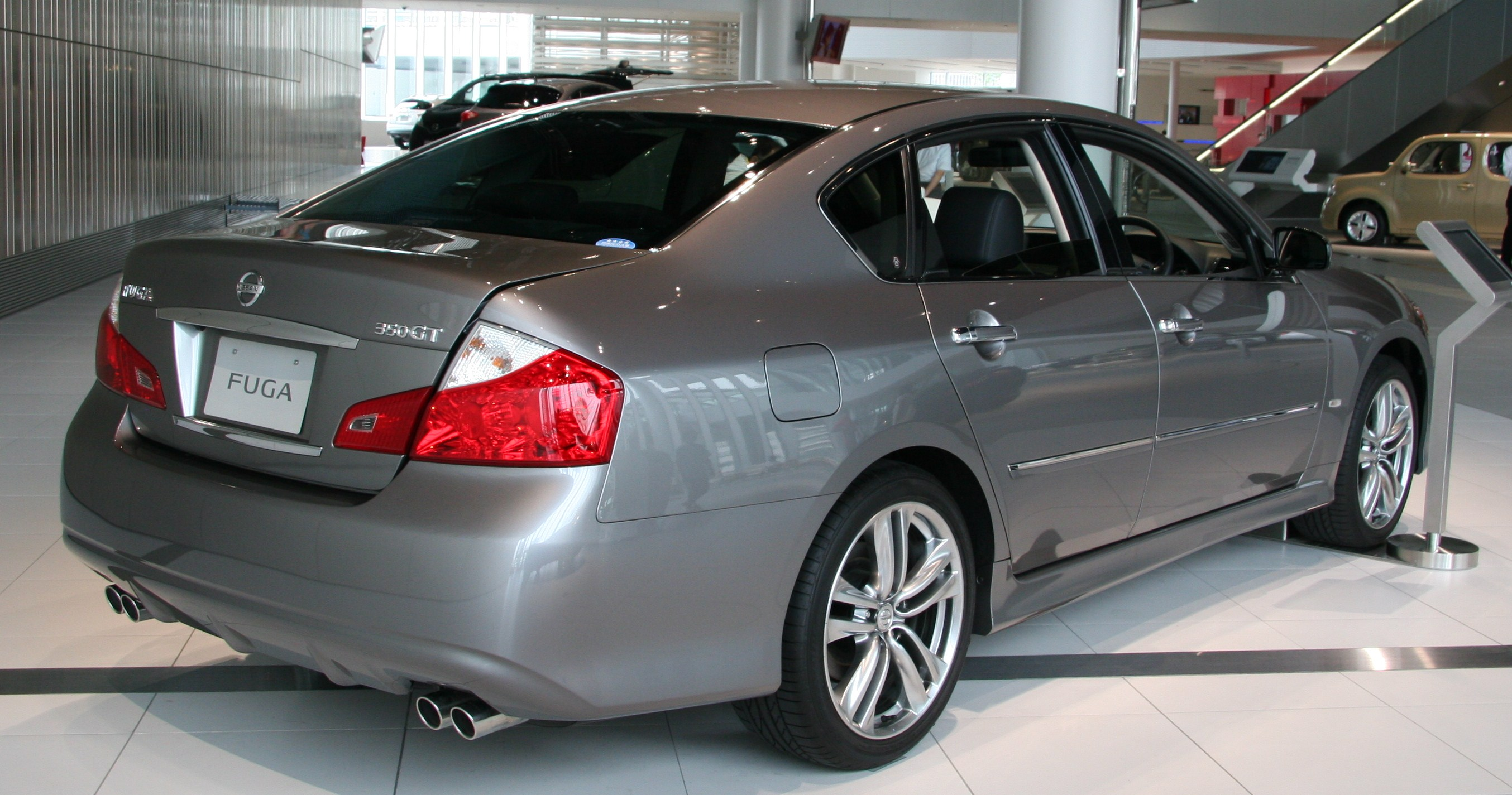 NISSAN FUGA